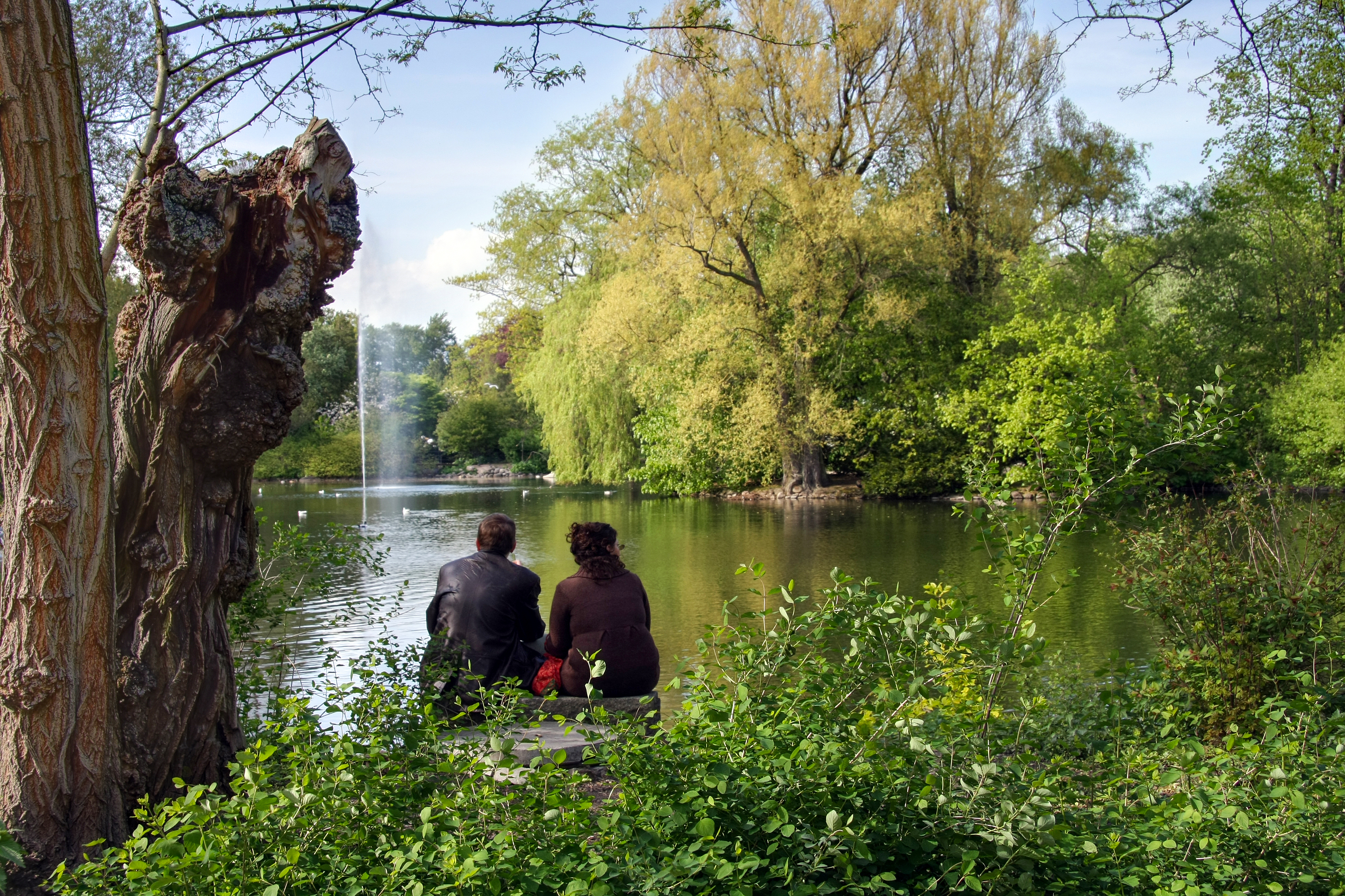 Stadsparken city park in Lund, Sweden